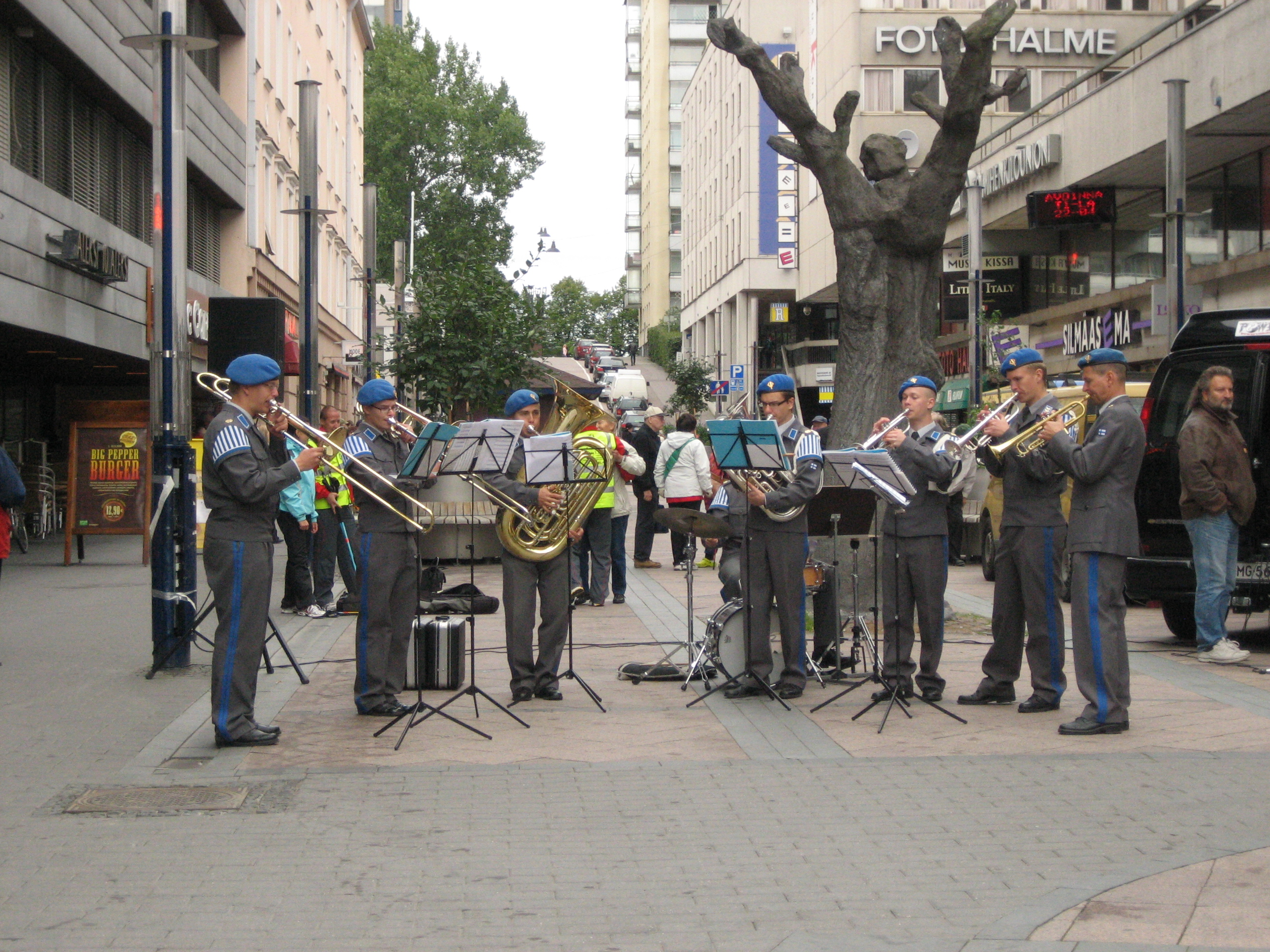 Finnish Defence Forces conscripts from the FDF Conscript Band of Häme Regiment giving a concert in downtown Lahti.